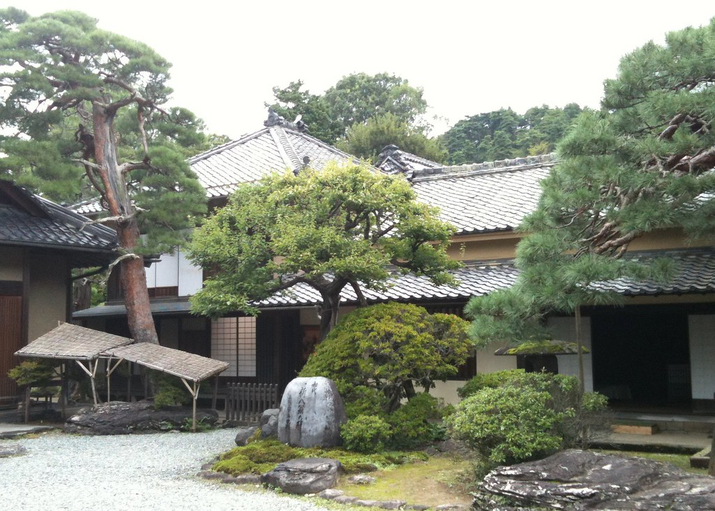 Tanaka Honke Museum in Suzaka City, Nagano Prefecture, Japan